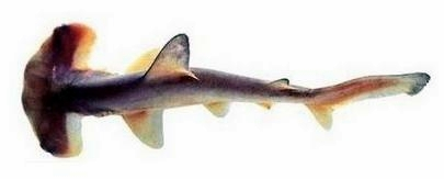 Smalleye hammerhead (Sphyrna tudes). Cropped version of [1], excluding portions from the FAO that are under noncommercial license.